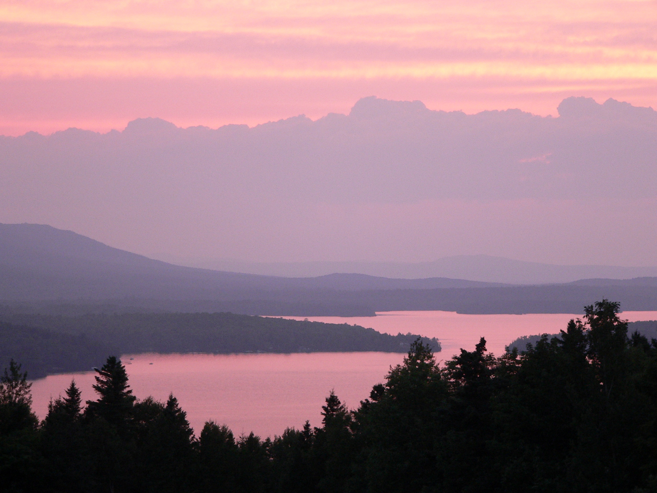 Maine in 2008 - taken from the back porch of the Lodge at Moosehead Lake.